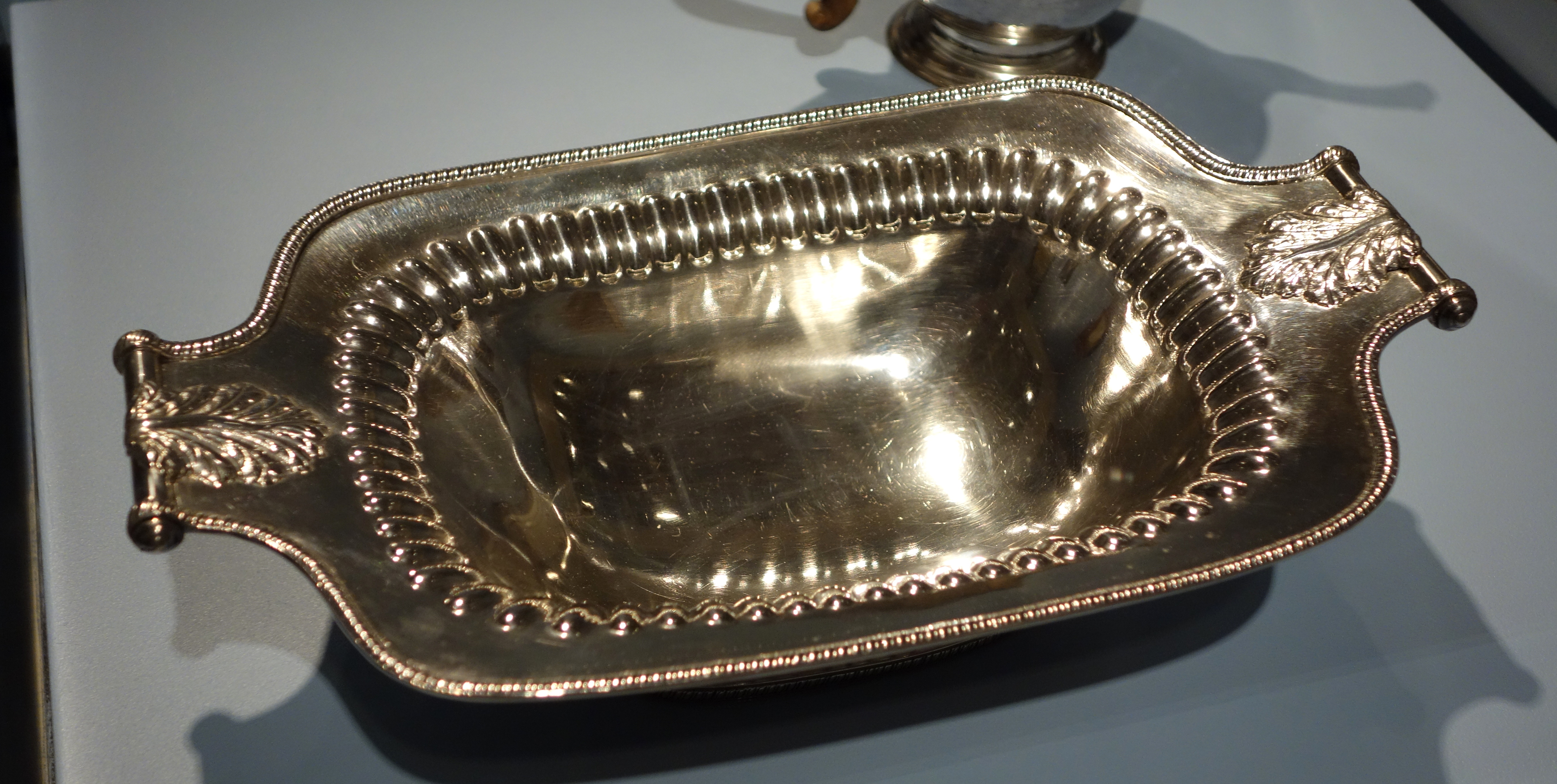 Exhibit in the Cincinnati Art Museum, Cincinnati, Ohio, USA. This artwork is in the public domain because the artist died more than 70 years ago.